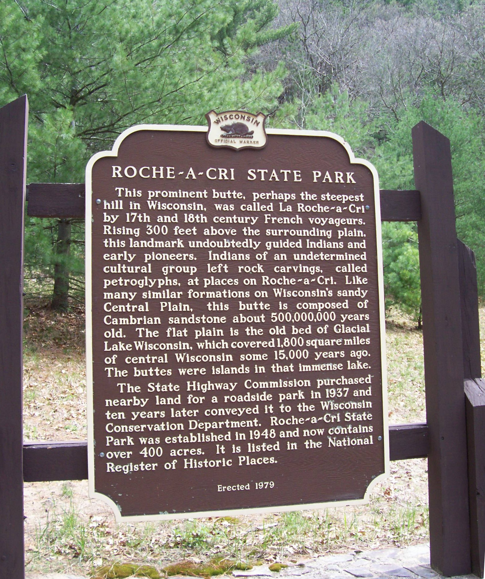 Looking west at the Registered Historic Place sign for Roche-a-Cri Petroglyphs at the Roche-a-Cri State Park north of Friendship, Wisconsin, USA.